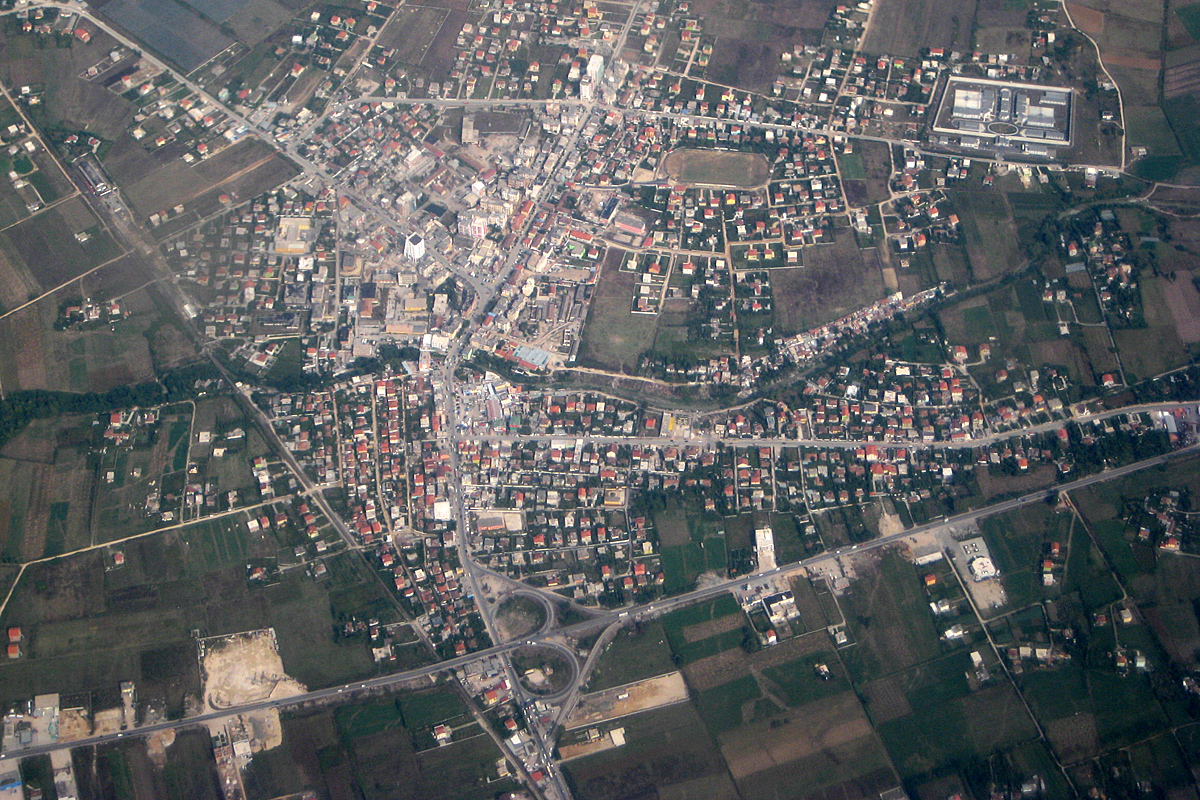 Fushë-Kruja in Albania seen from a plane (North to the left)